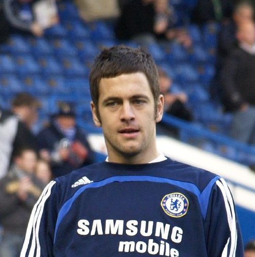 Joe Cole, English footballer